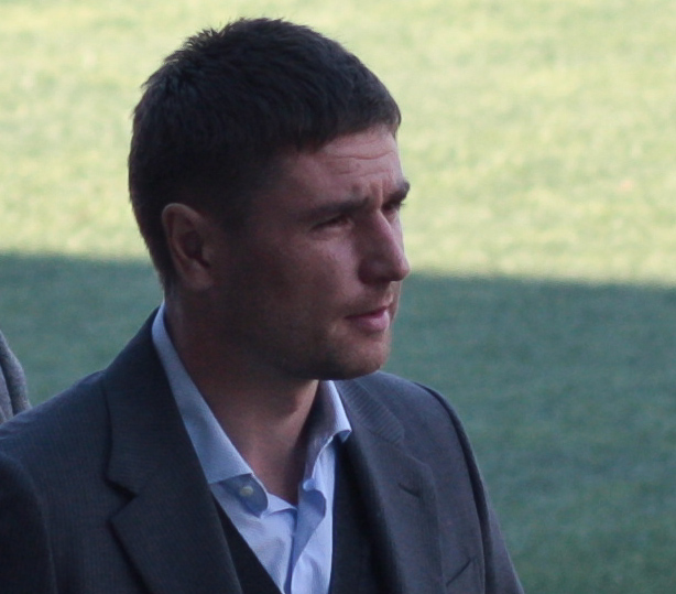 Marian Pahars, Latvian football player